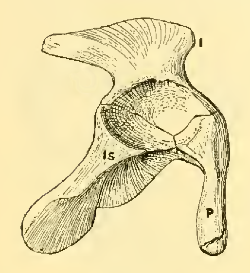 An illustration from The Osteology of the Reptiles